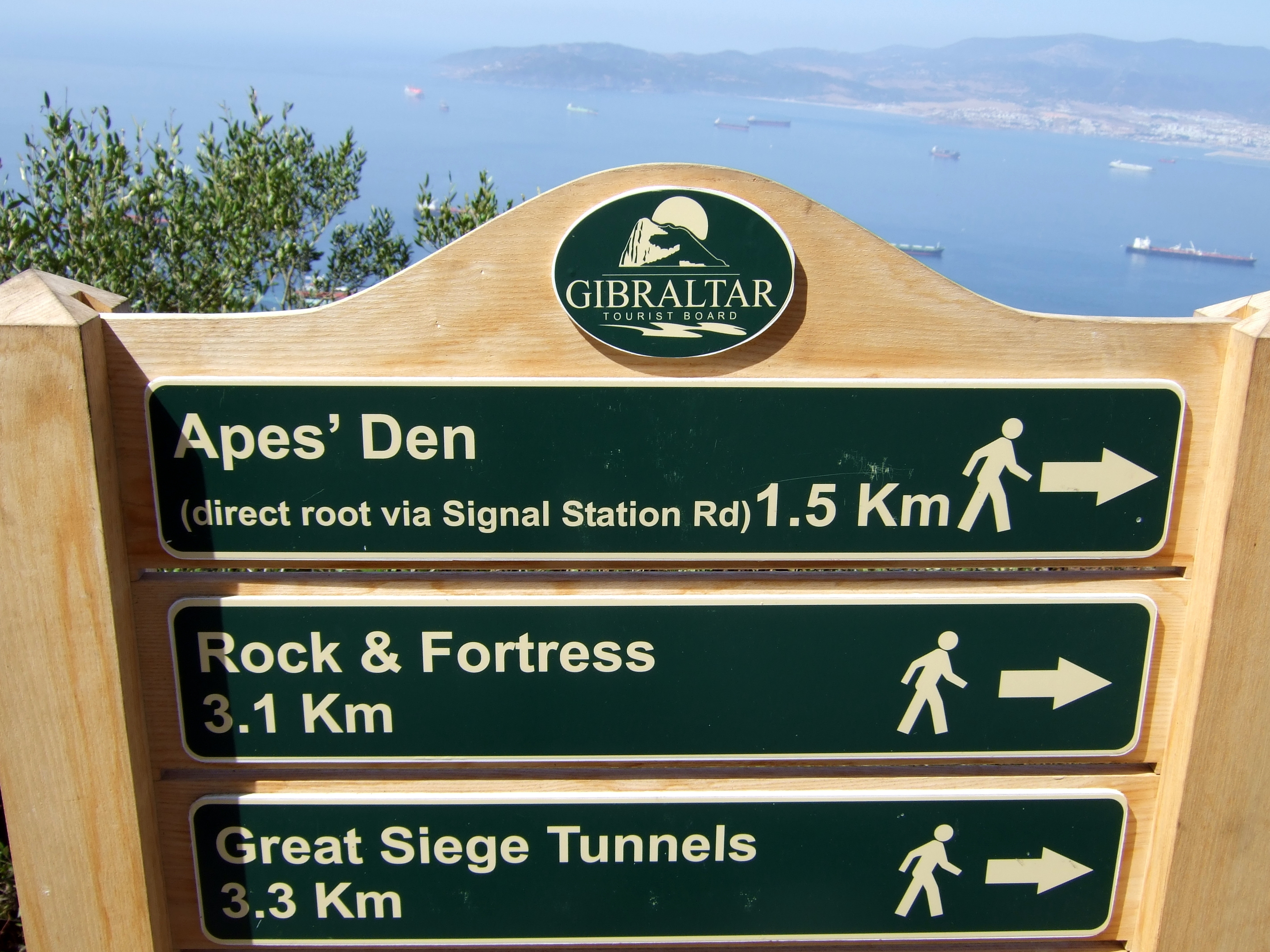 Gibraltar Tourist Board direction signs on the Rock of Gibraltar.